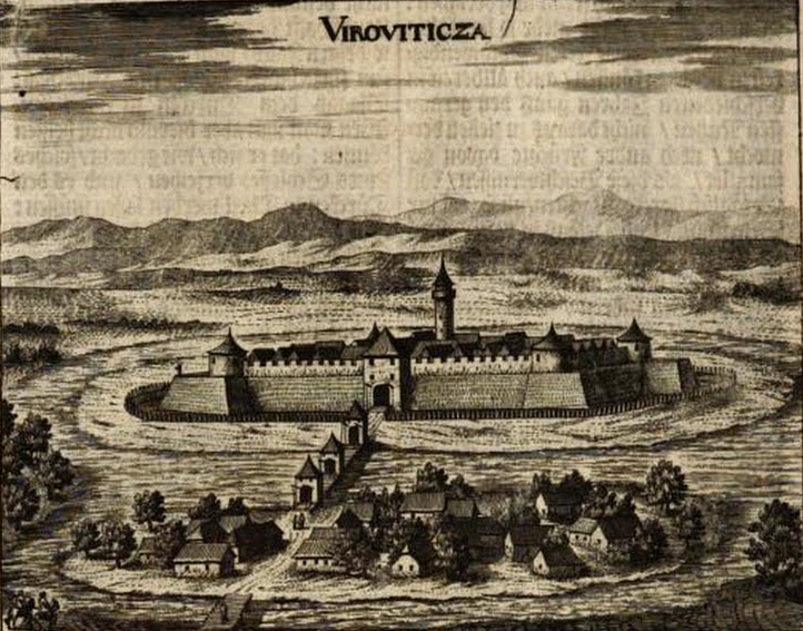 Virivitica in 1689 (in Johann Weikhard von Valvasor: Die Ehre des Herzogthums Crain)